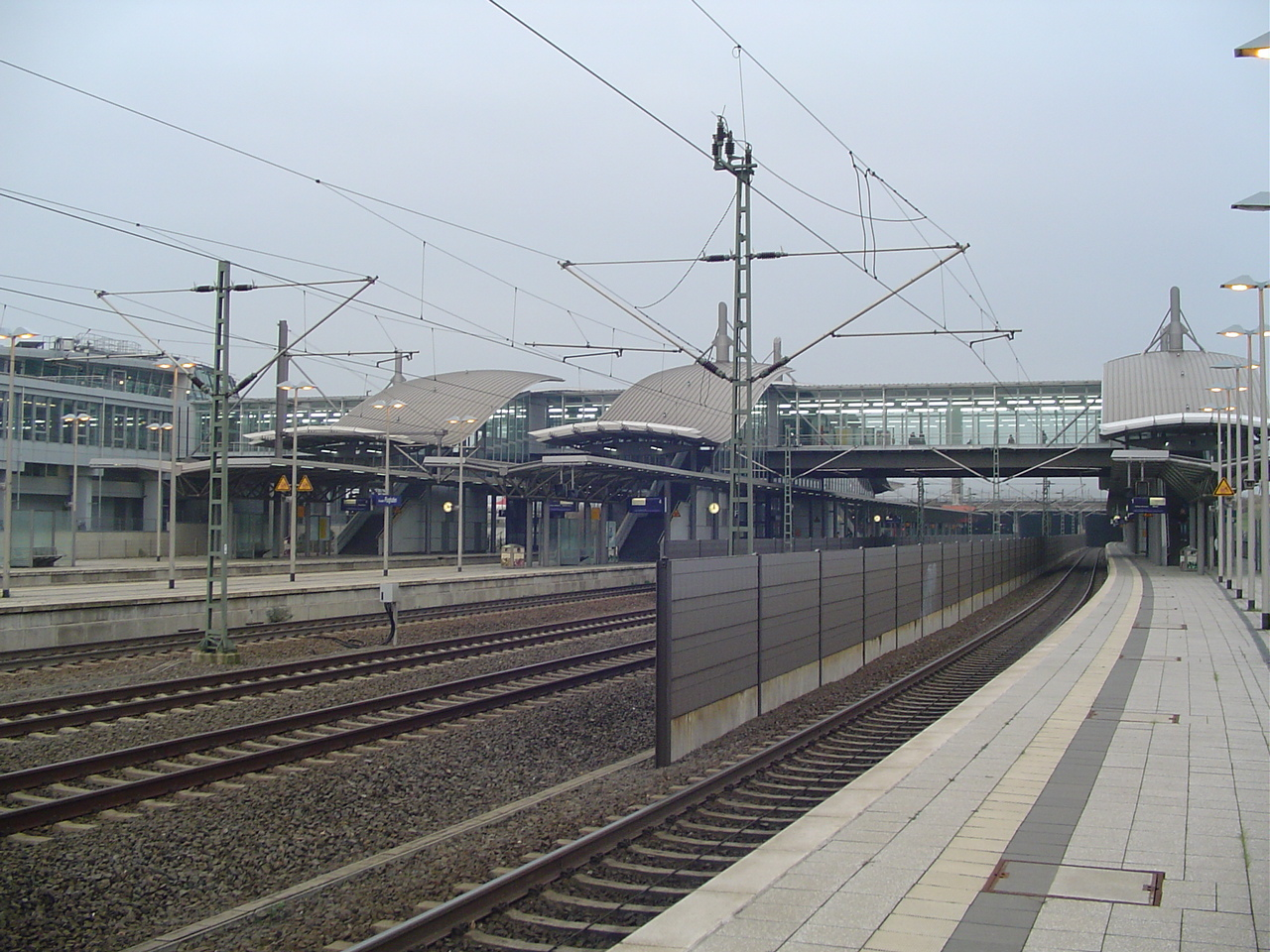 Train station at Düsseldorf-Flughafen / Airport Fernbahnhof, Germany